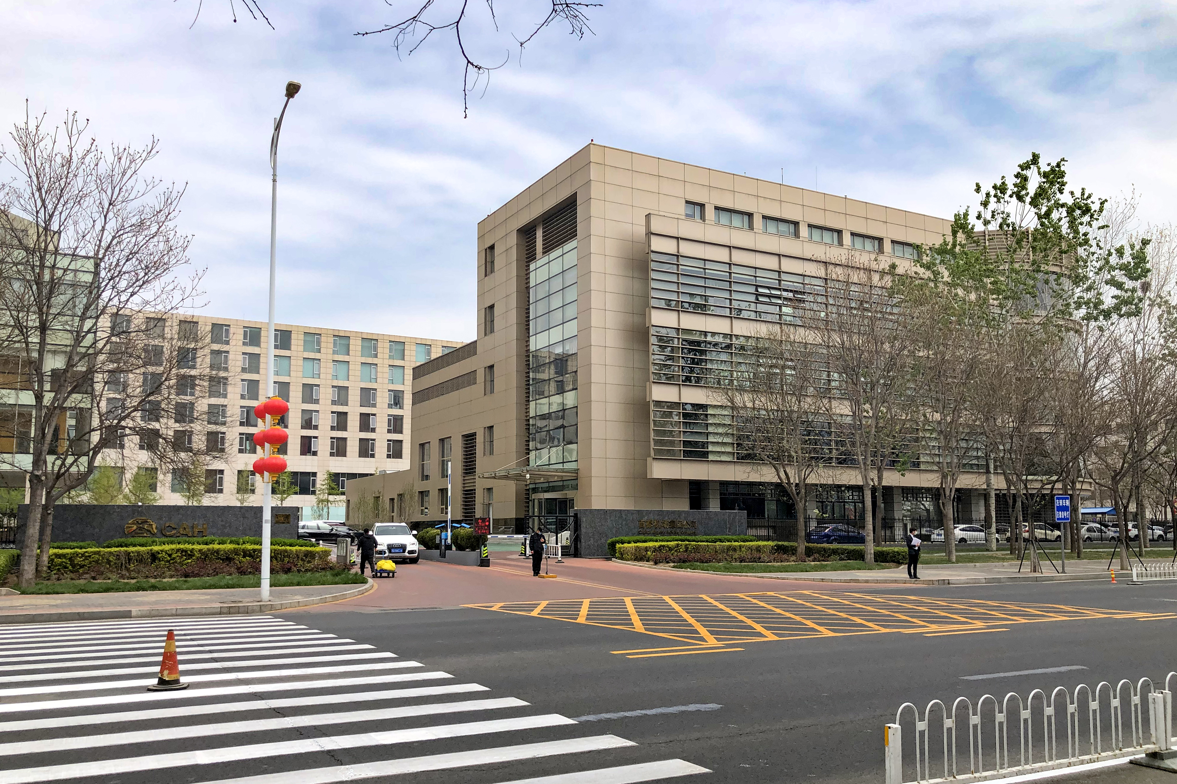 South of Hilton, on Erwei Rd.